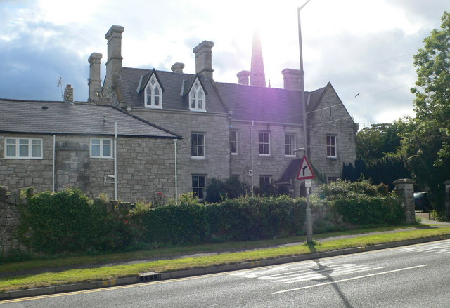 Bodelwyddan Church Vicarage An imposing vicarage, built of the same limestone as the "Marble" Church. The church spire can be seen behind the building.